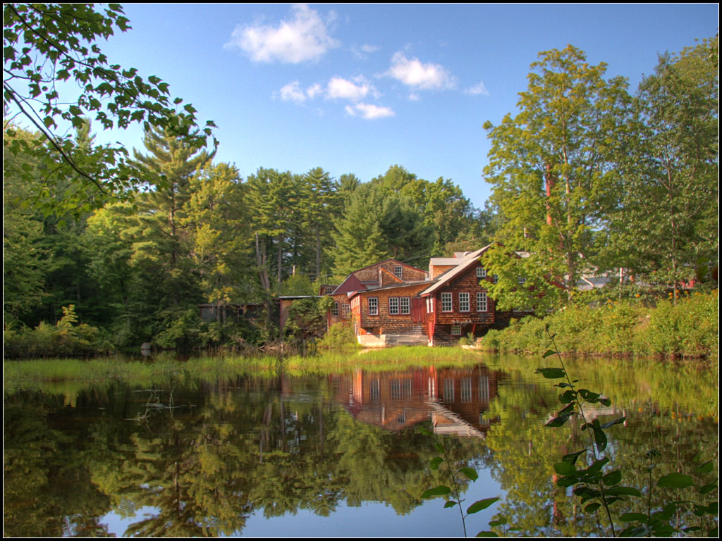 Frye's Measure Mill. Wilton, NH. This water-powered mill has been operating since the 1850s. They currently manufacture authentic Shaker boxes and other one-of-a-kind gifts. Frye's Measure Mill is listed on the National Register of Historic Places.